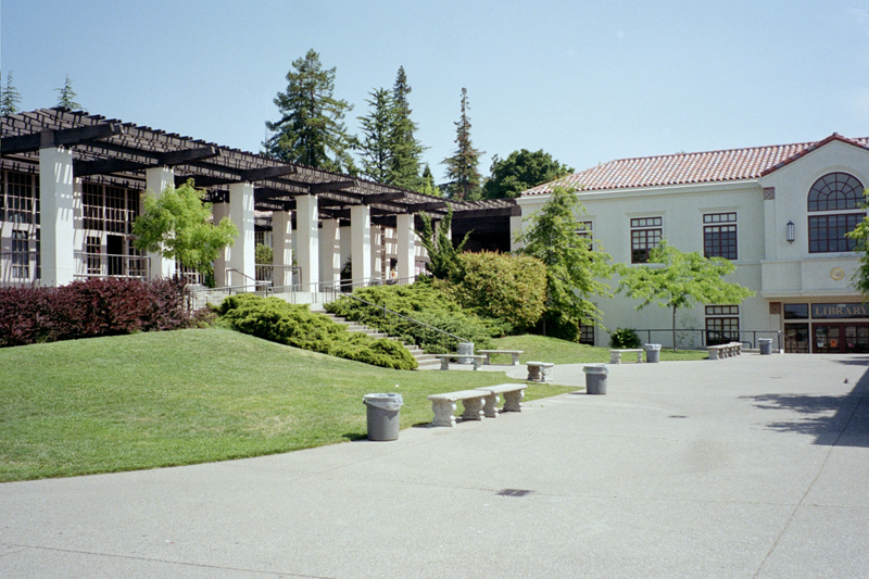 A view of Piedmont High School campus from "the quad": (left to right) the Allan Harvey Theatre and the library.